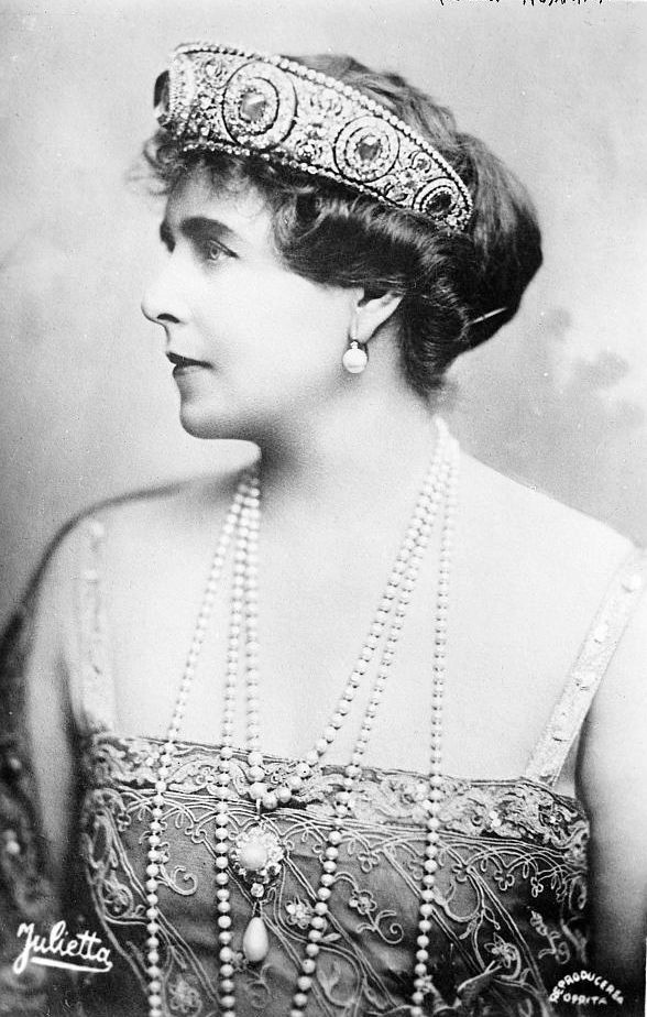 Queen Mary of Romania